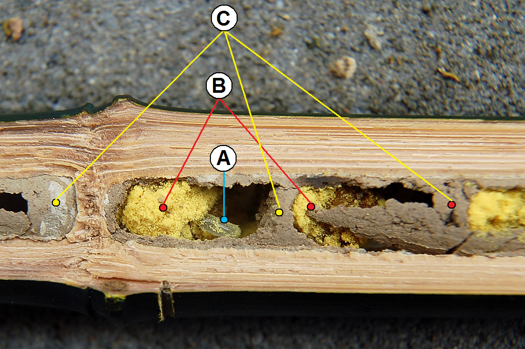 Opened nest of a red mason bee (Osmia rufa)